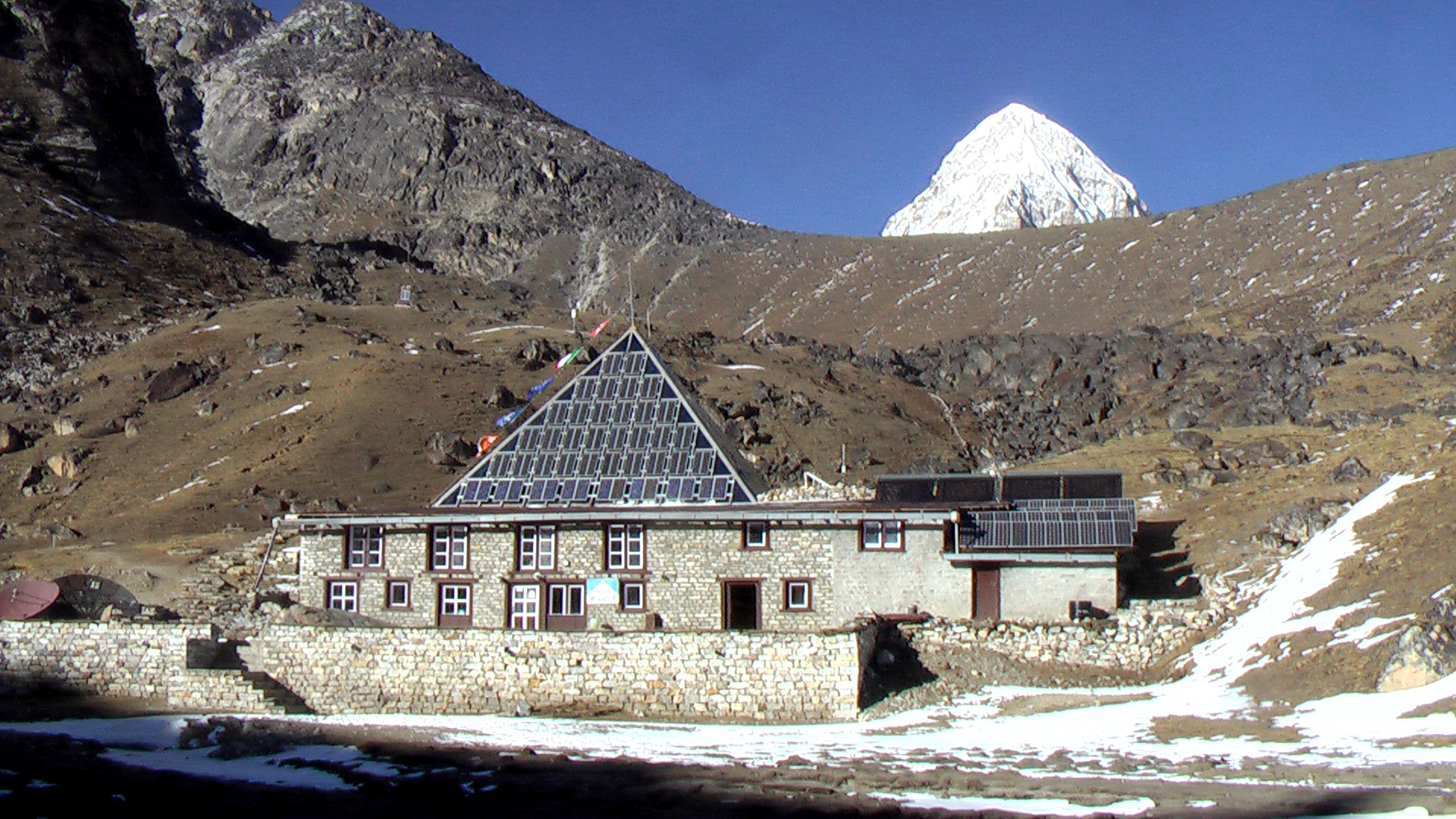 The Italian Pyramid. (Pyramid International Laboratory-Observatory)